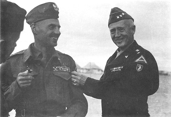 Polish General Władysław Anders and American Lieutenant General George Patton exchanging award insignias in Europe.